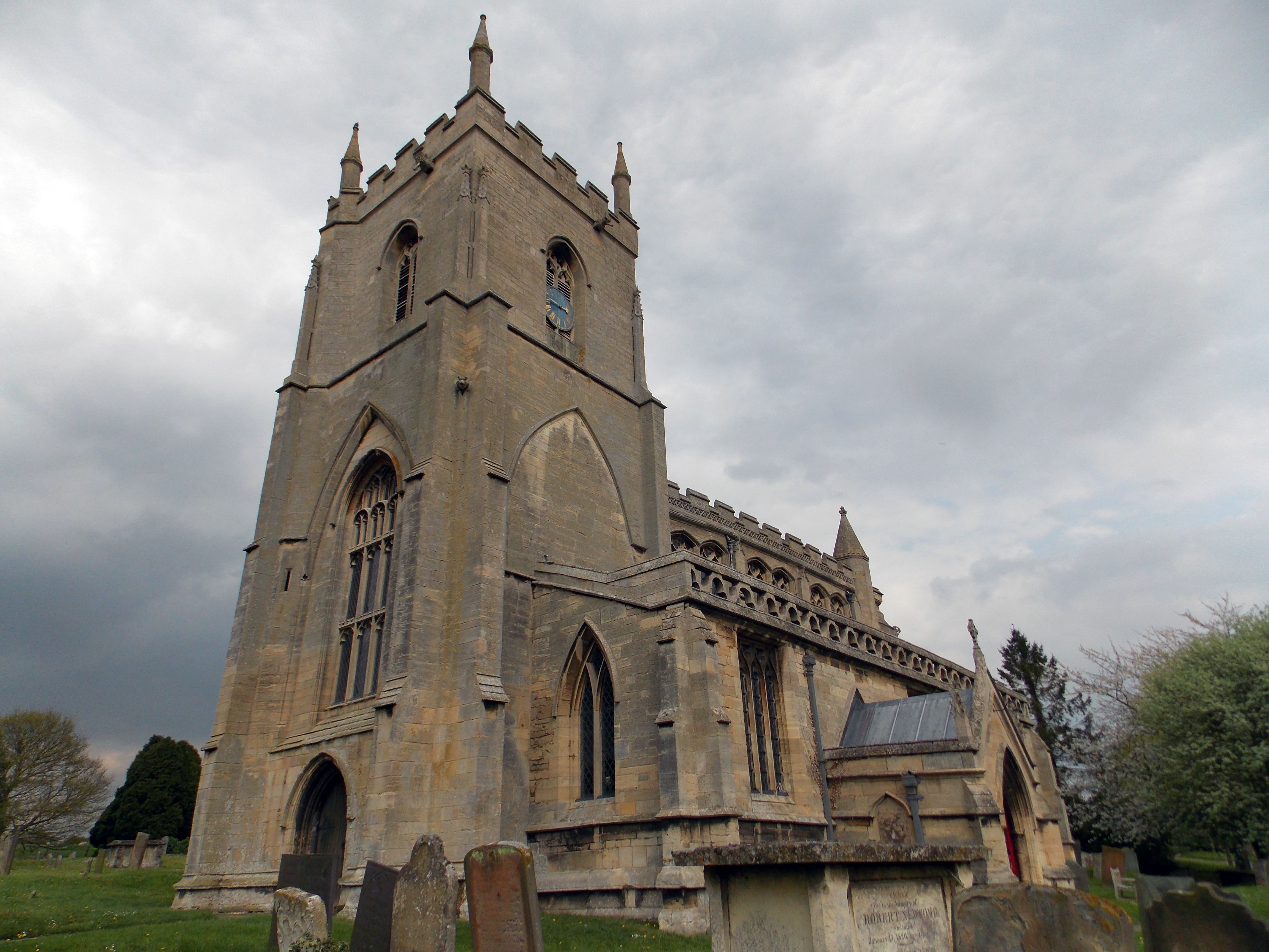 Aslackby St James, exterior- from the southwest